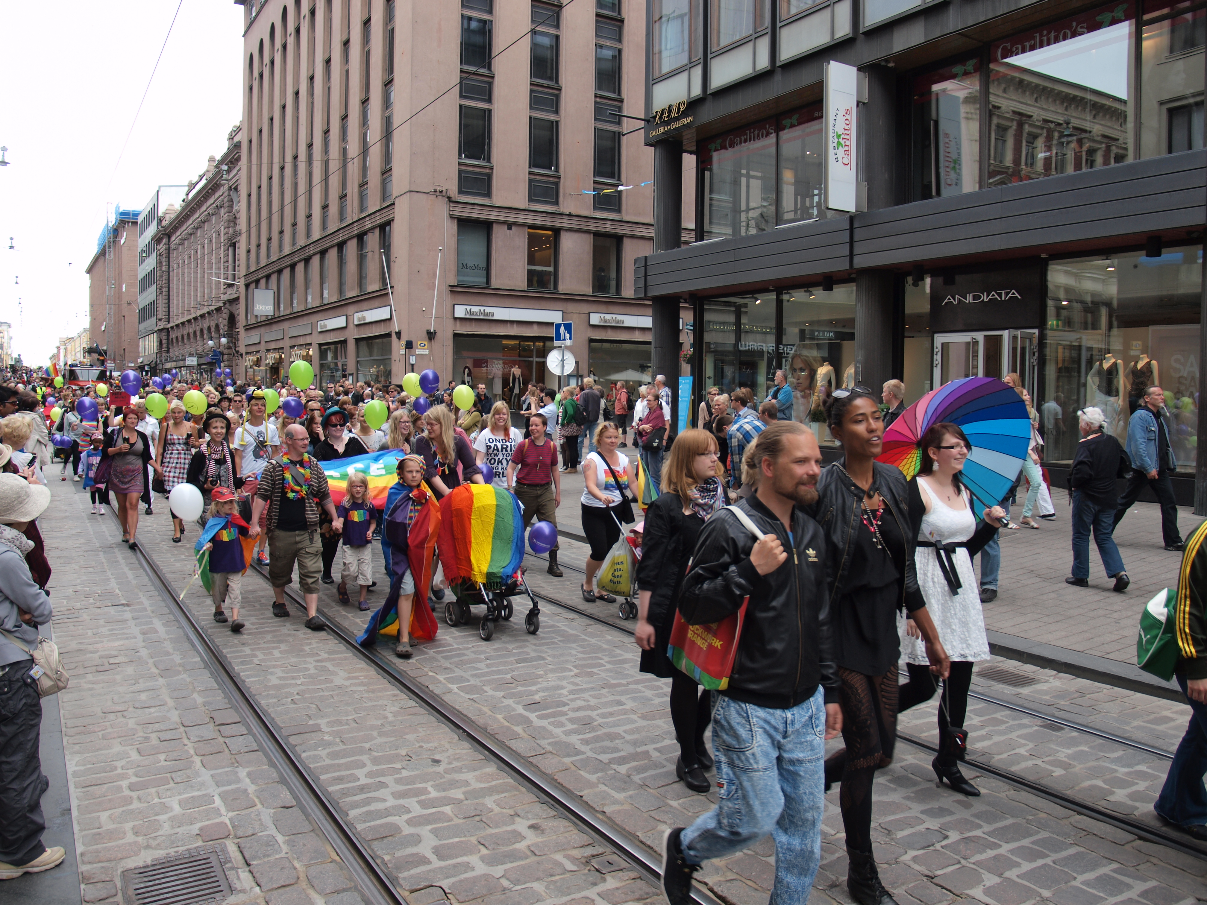 The street parade at Helsinki Pride 2012.